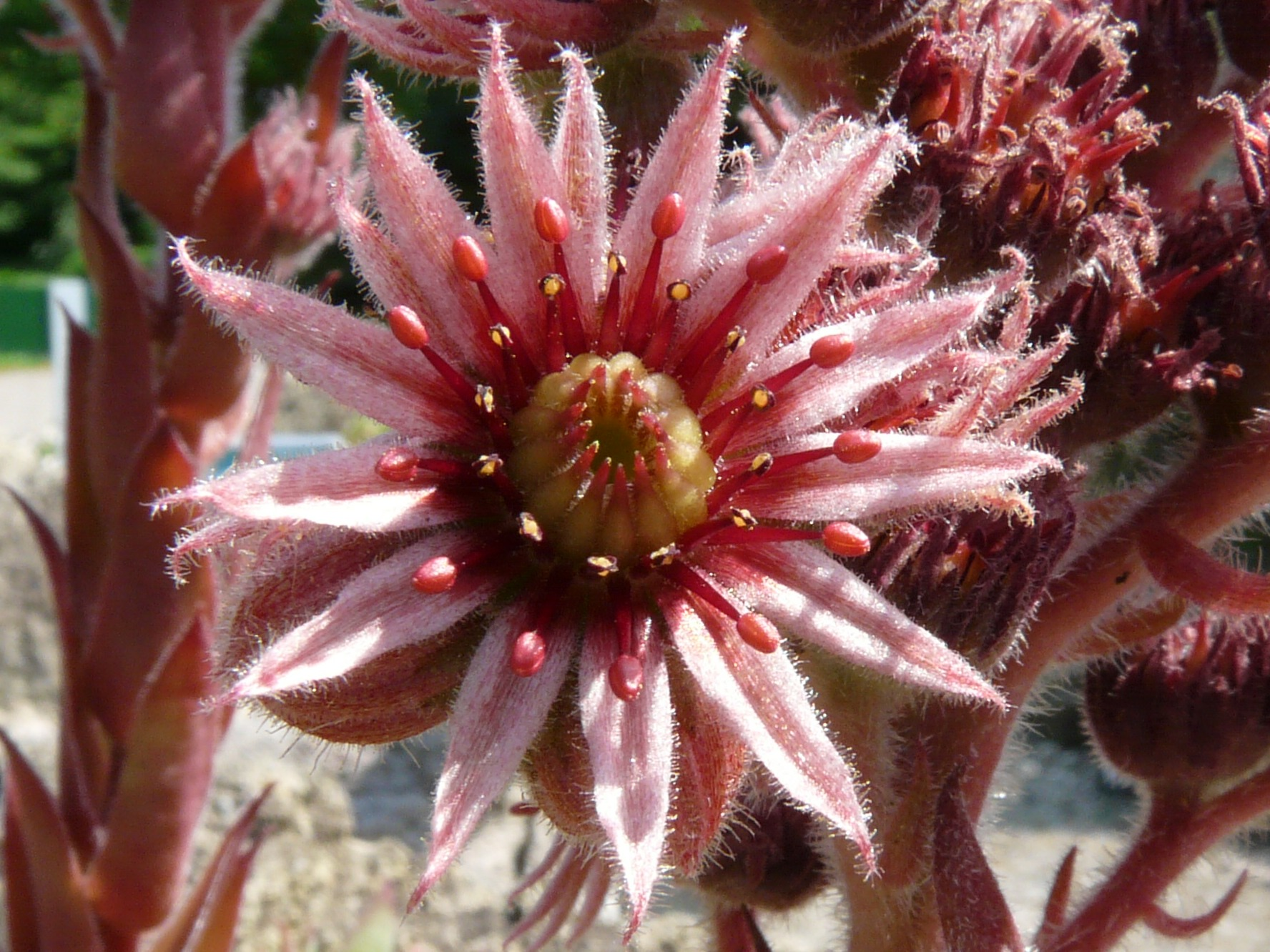 Sempervivum tectorum subsp. alpinum at Botanical Gardens Utrecht